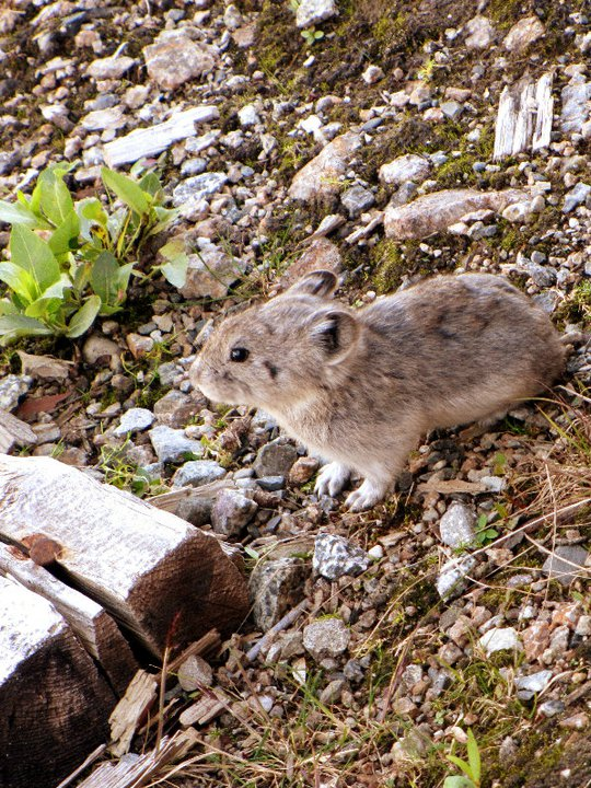 A Collared Pika in Hatchers Pass Alaska, 2011.